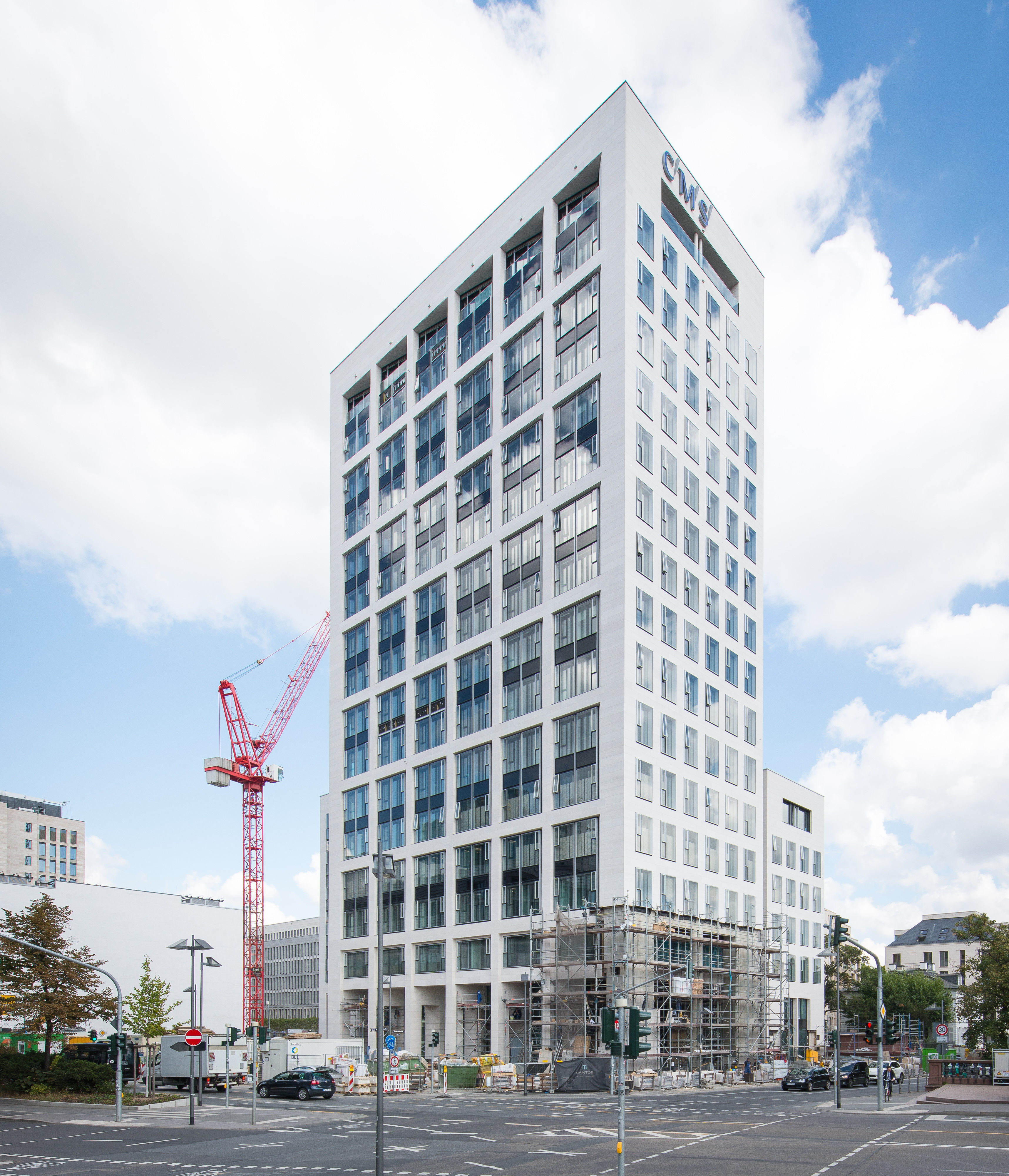 Frankfurt am Main, Panorama office tower on MainTor redevelopment site, shortly before its completion, as seen from South-West (September 2015).